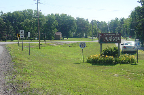 A welcome sign in Danish in Askov, Minnesota